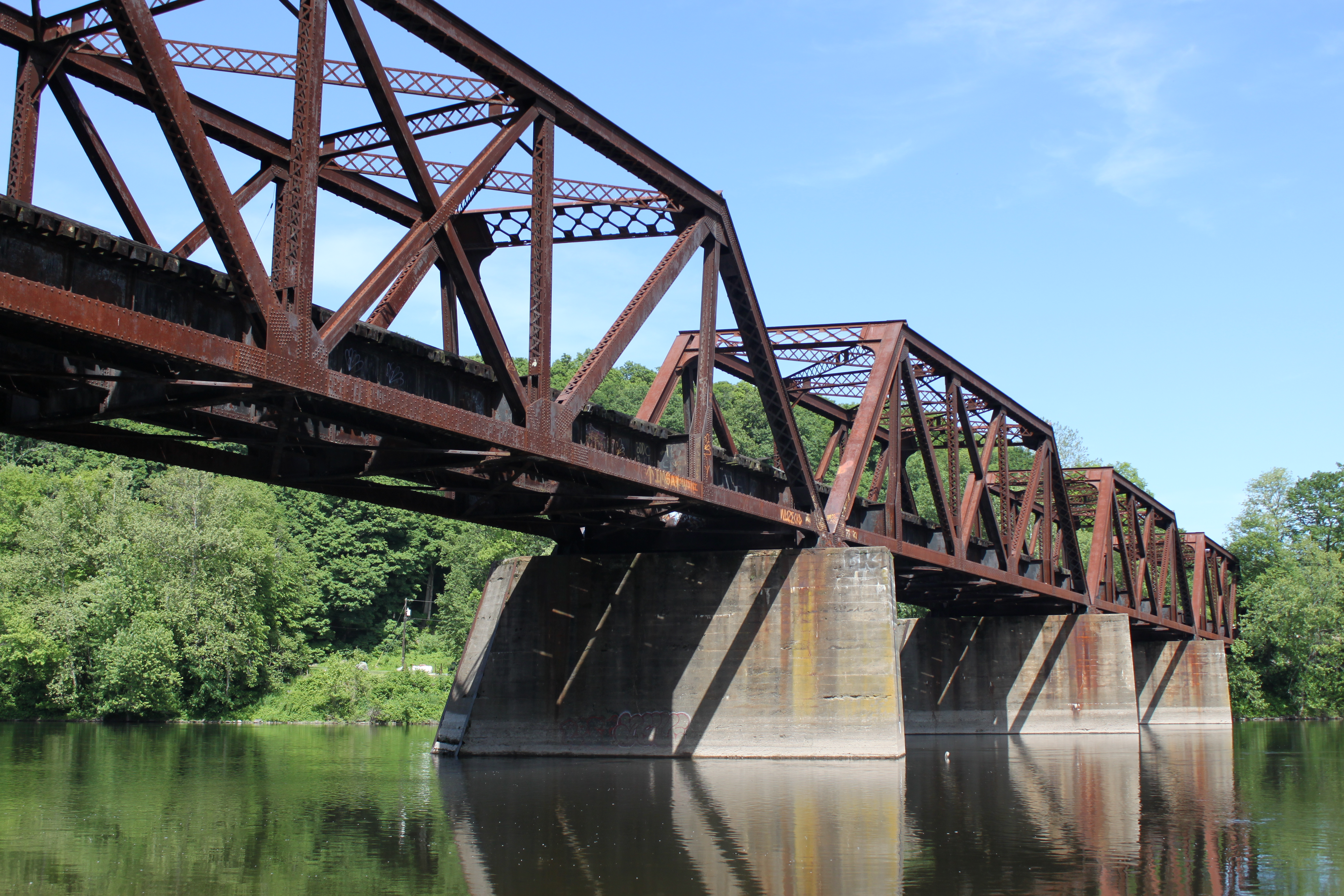 Photograph looking north of the 1902 Delaware, Lackawanna & Western Railroad bridge over the Delaware River near Delaware, New Jersey, taken 27 May 2013.